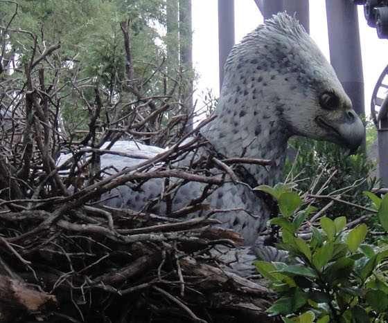 The hippogriff that is saved from a death sentence by Harry Potter and his friends and helps save the prisoner of Azkaban.